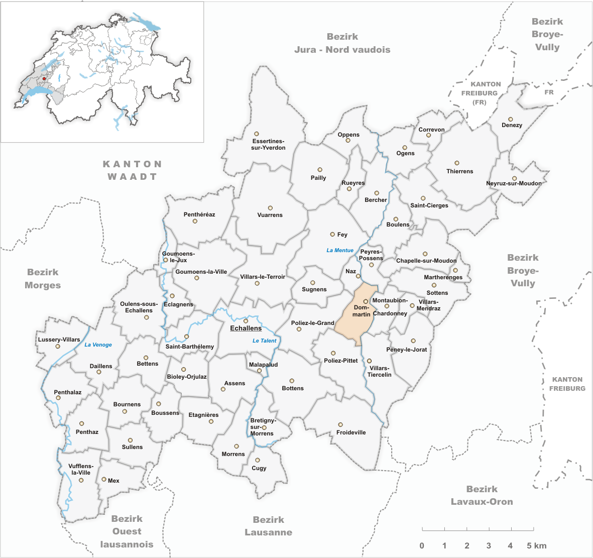 Municipality Dommartin